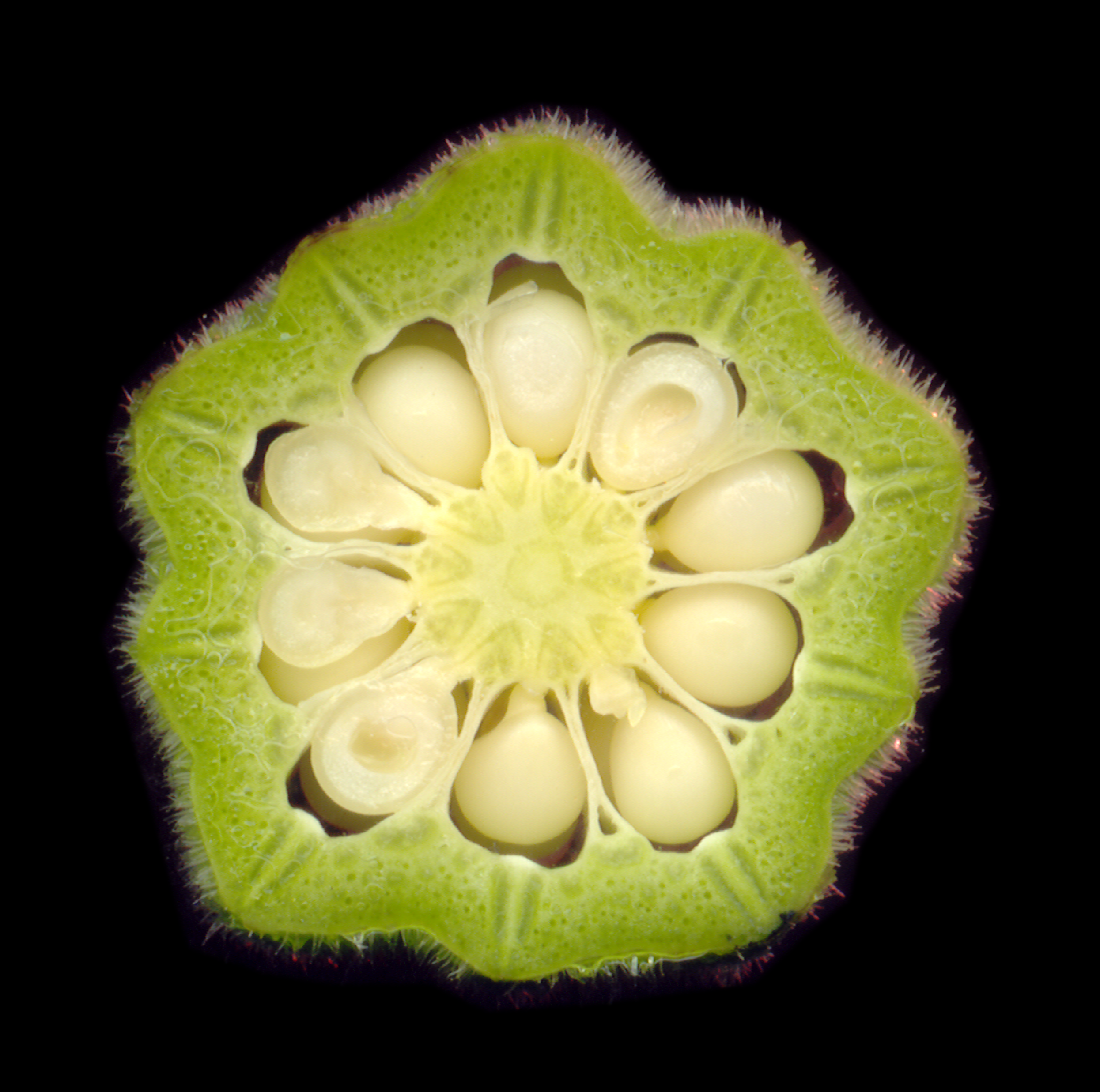 A 2400-dpi scan of a cross-section of the edible seed pod of the okra (Abelmoschus esculentus).